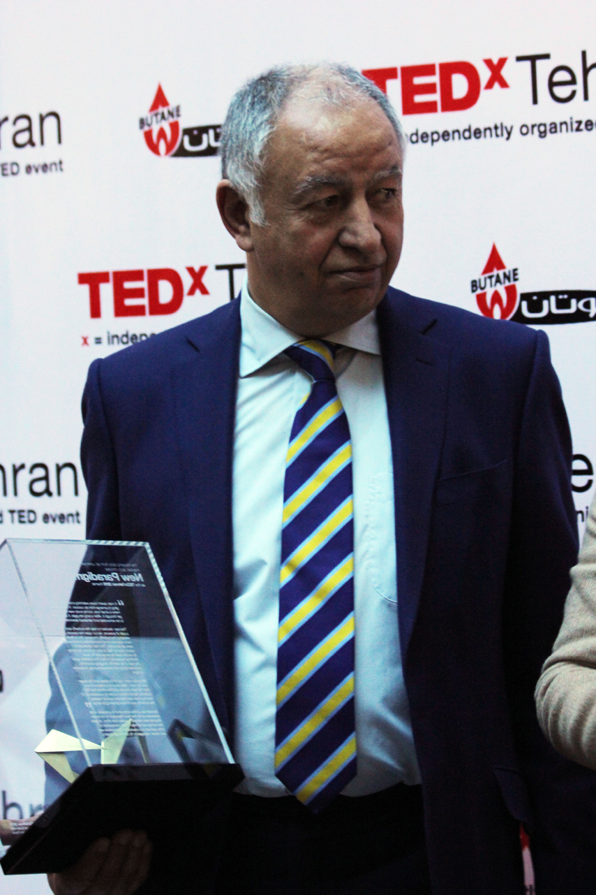 Citizen X winner 2015, Gholam Ali Soleymani TEDxTehran 2015 - New Paradigm - December 4, 2015, Razi International Conference Hall, Tehran, Iran. Photo: Niyousha Khatib/TEDxTehran